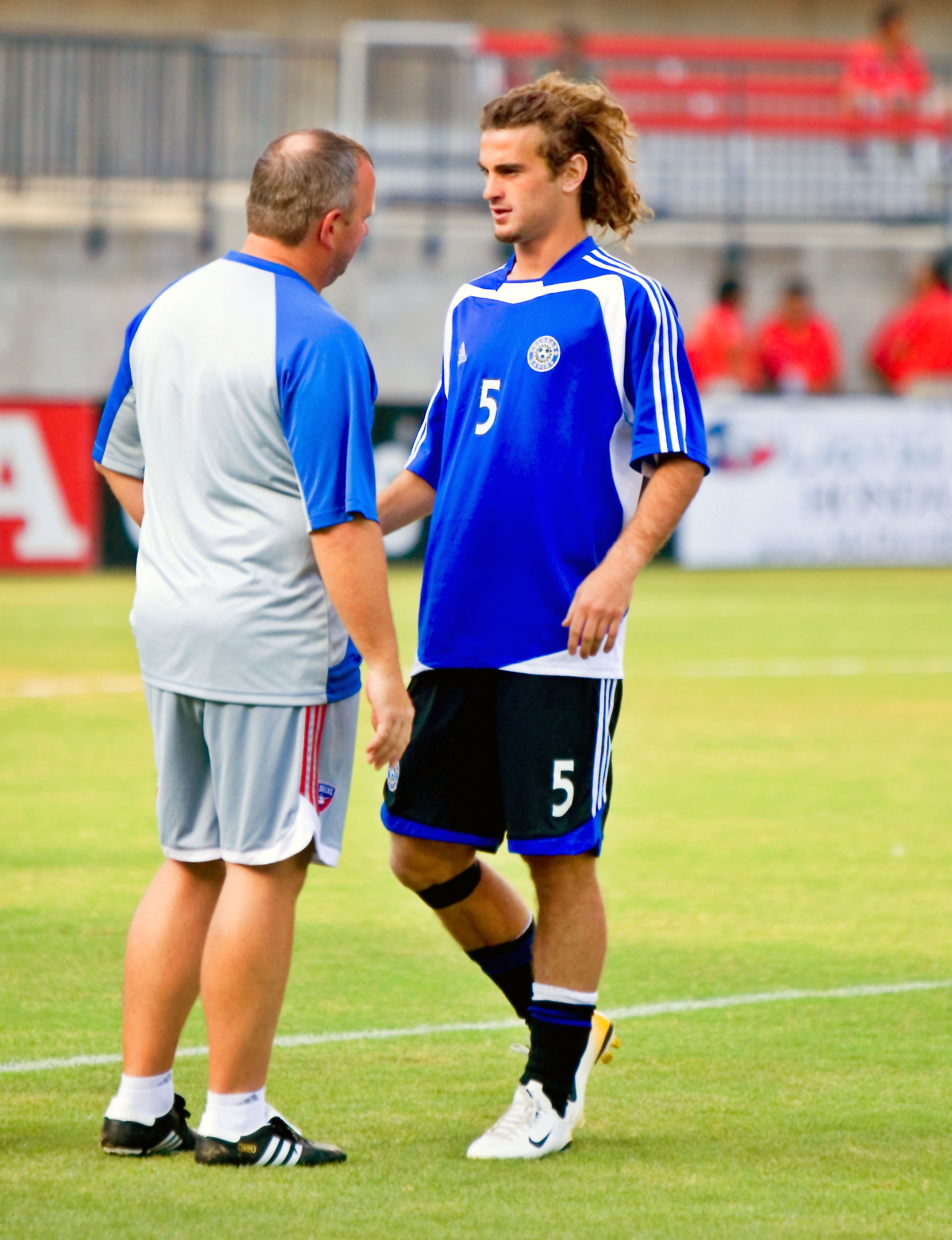 Kyle Beckerman in 2007, then with the Colorado Rapids.